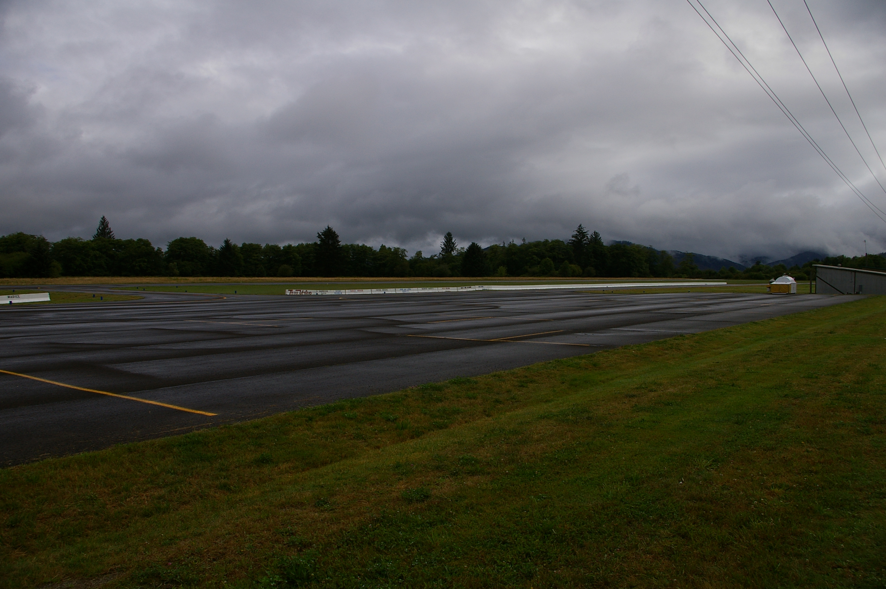 Forks WA Municipal Airport